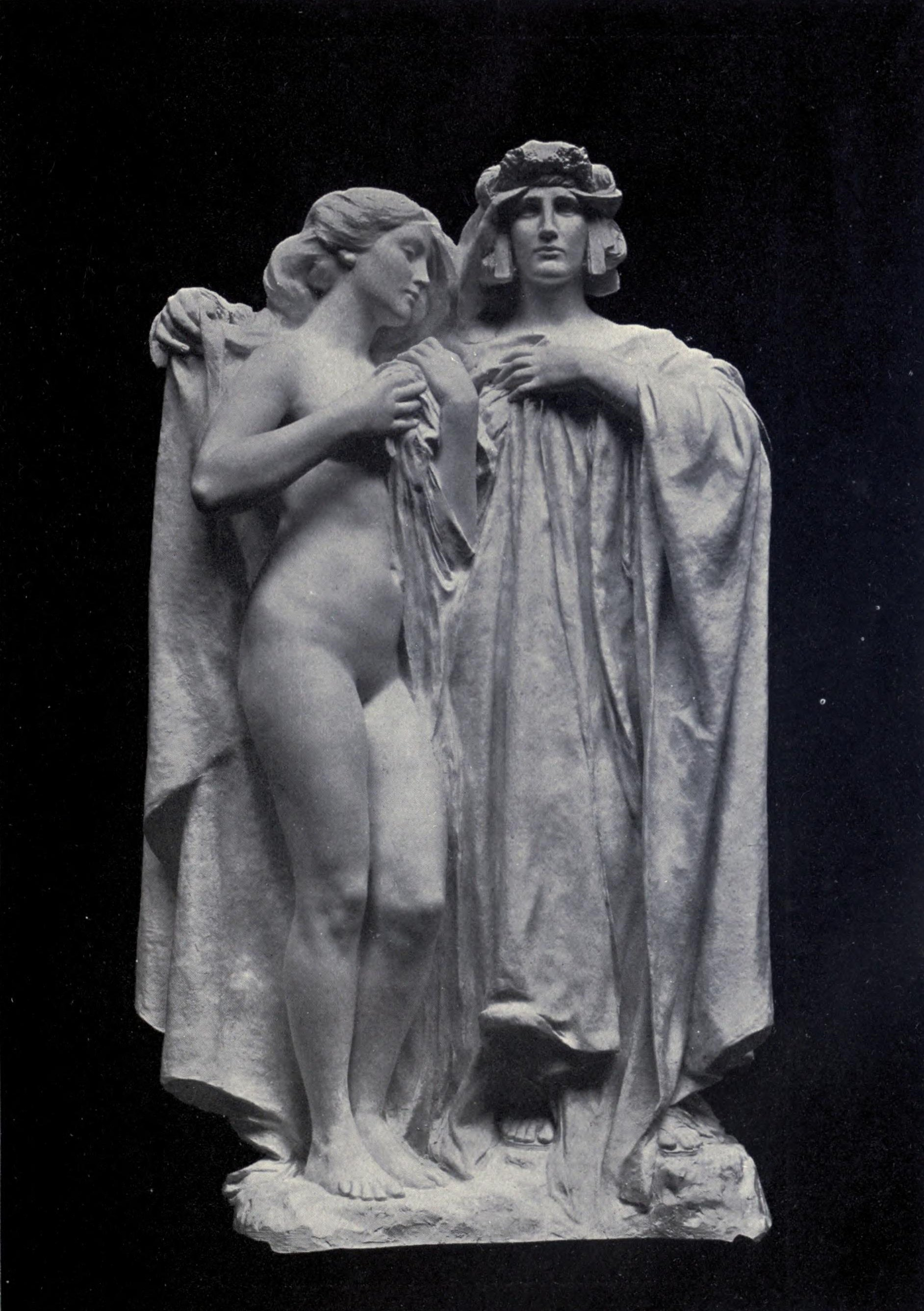 Tragedy enveloping Comedy